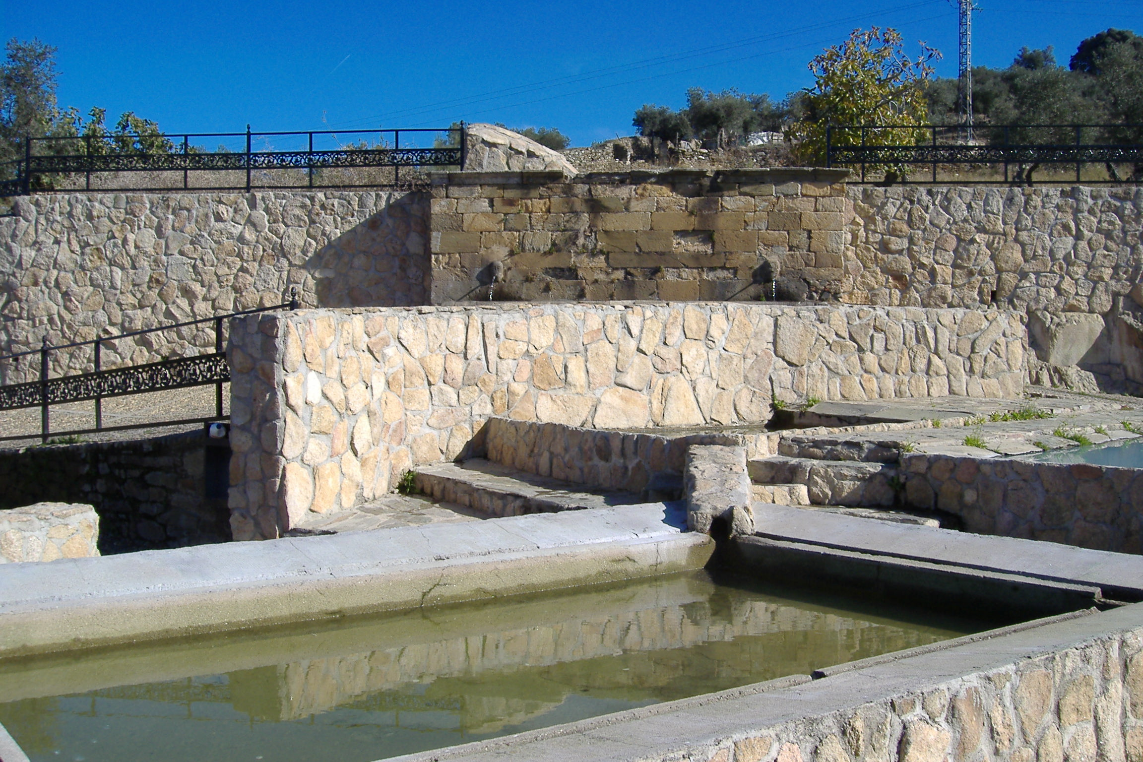 Fountain of La Breña in Talaván (Extremadura, Spain)